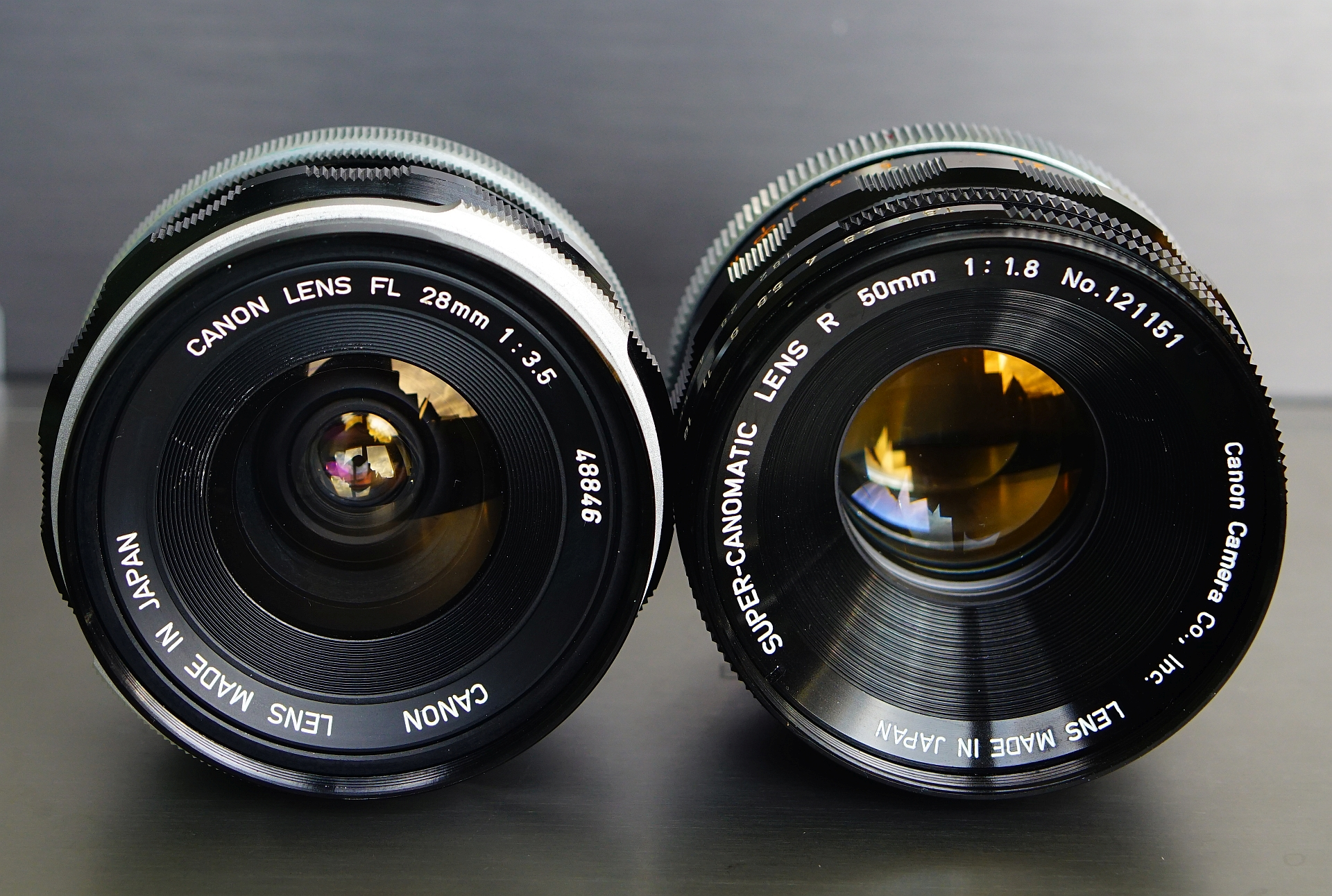 Comparison of Canon's early types of breech-lock SLR lenses of the first Canon Super-Canomatic or R mount to the second variant FL mount lens. The Canon FL 28mm against the Canon R 50mm as seen from the front of the lenses.